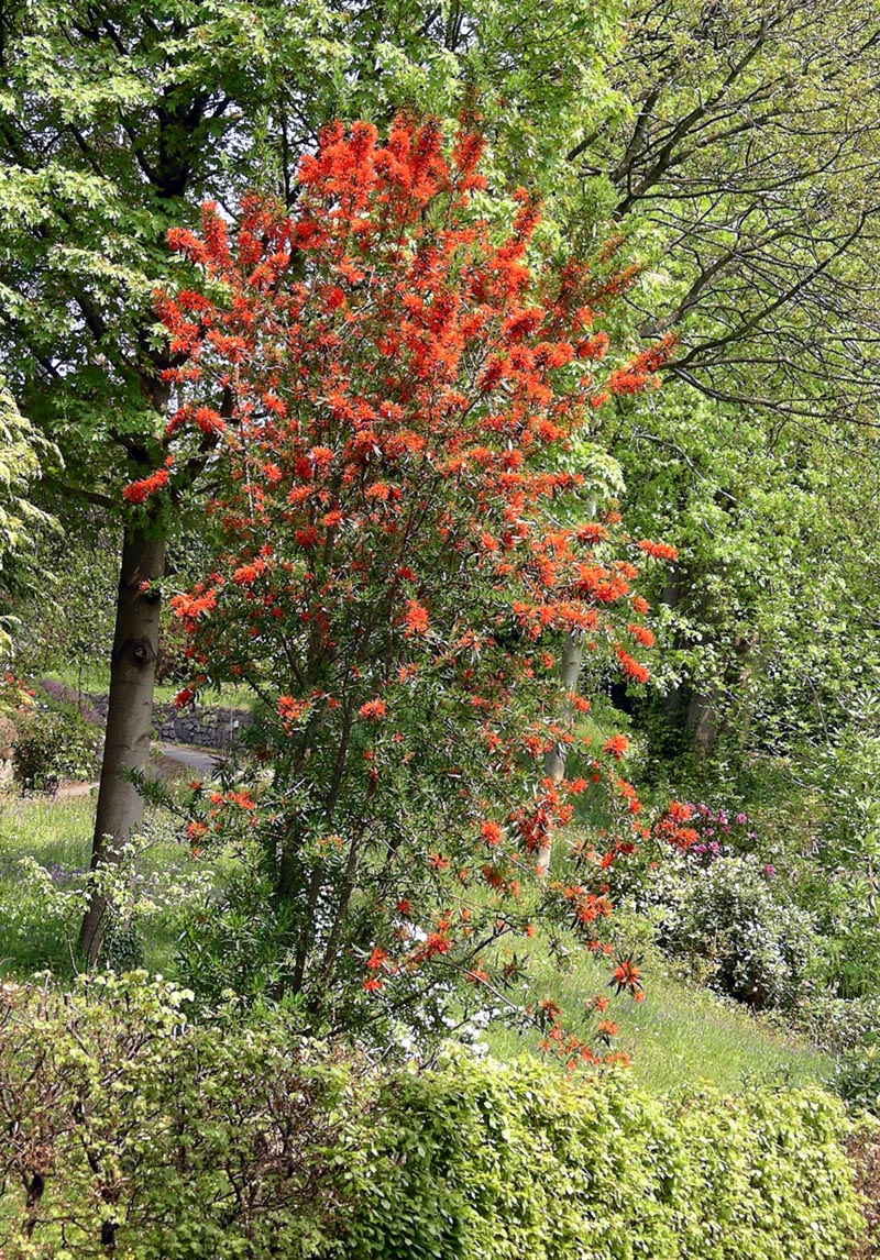 Embothrium coccineum tree growning in north west Wales. May 2006